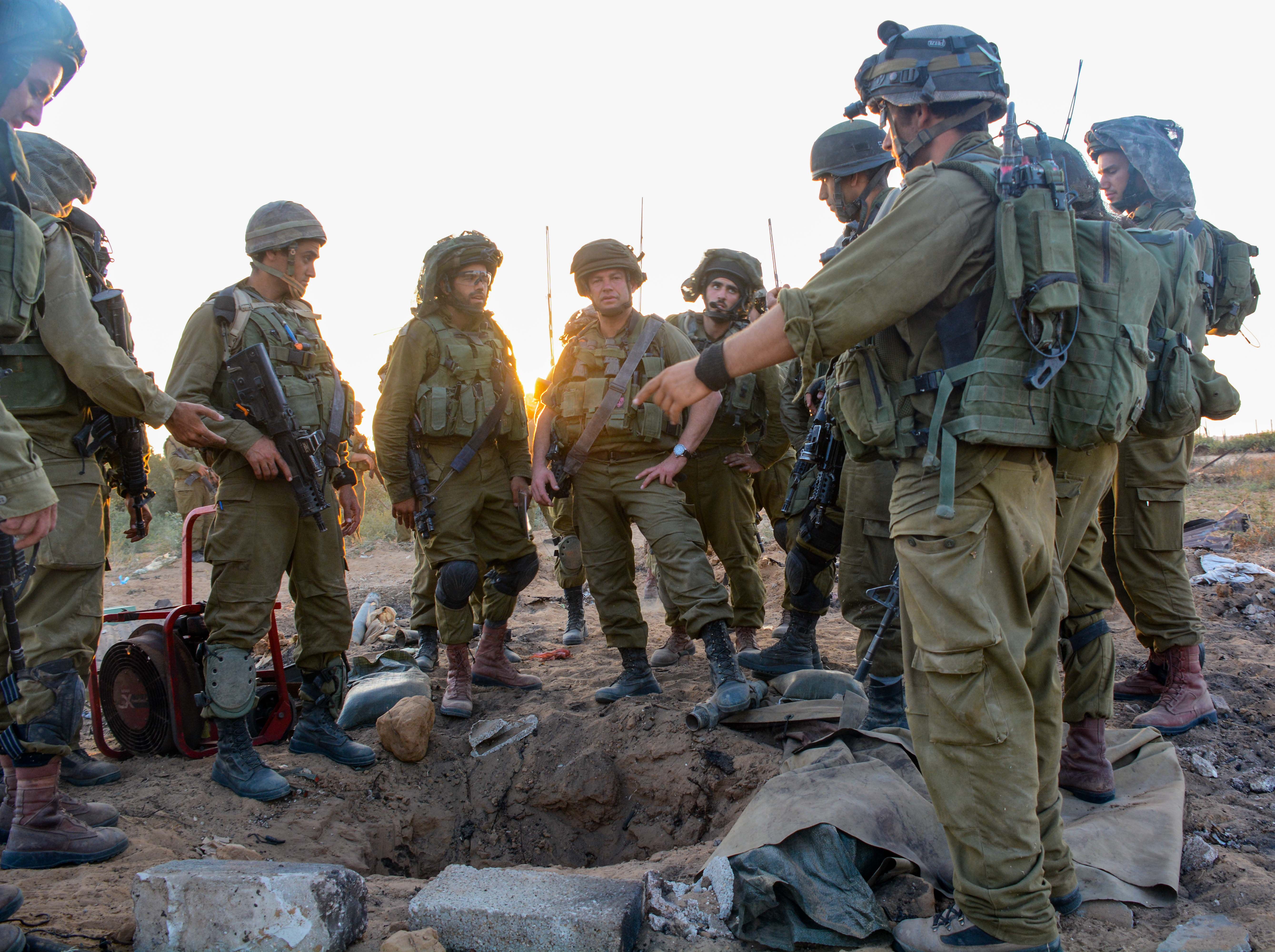 The IDF continues to search for hidden terror tunnels in the Gaza Strip, used by Hamas to carry out attacks on Israelis.